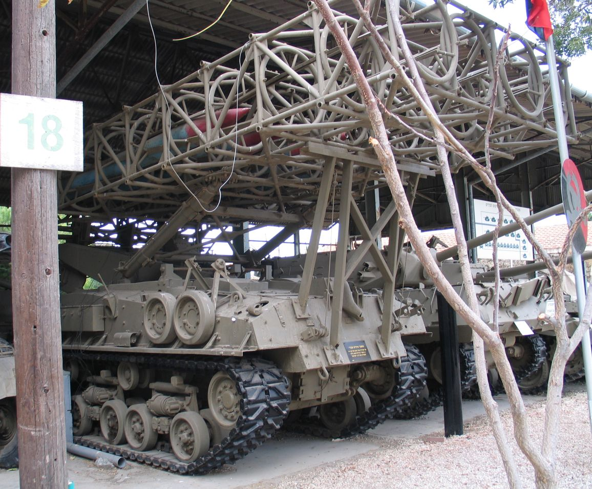 Description: MAR-290 ground-to-ground missile launcher on M4 Sherman chassis in Batey ha-Osef museum, Tel Aviv, Israel. 2005. Source: Photo by me, User:Bukvoed.